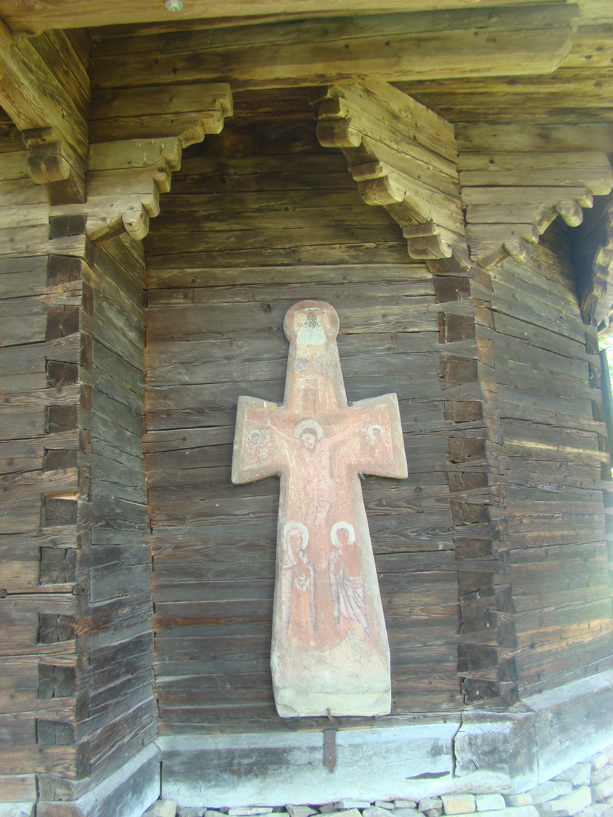 Wooden church in Săcalu de Pădure, Mureș countyRomână: Biserica de lemn din Săcalu de Pădure, județul Mureș